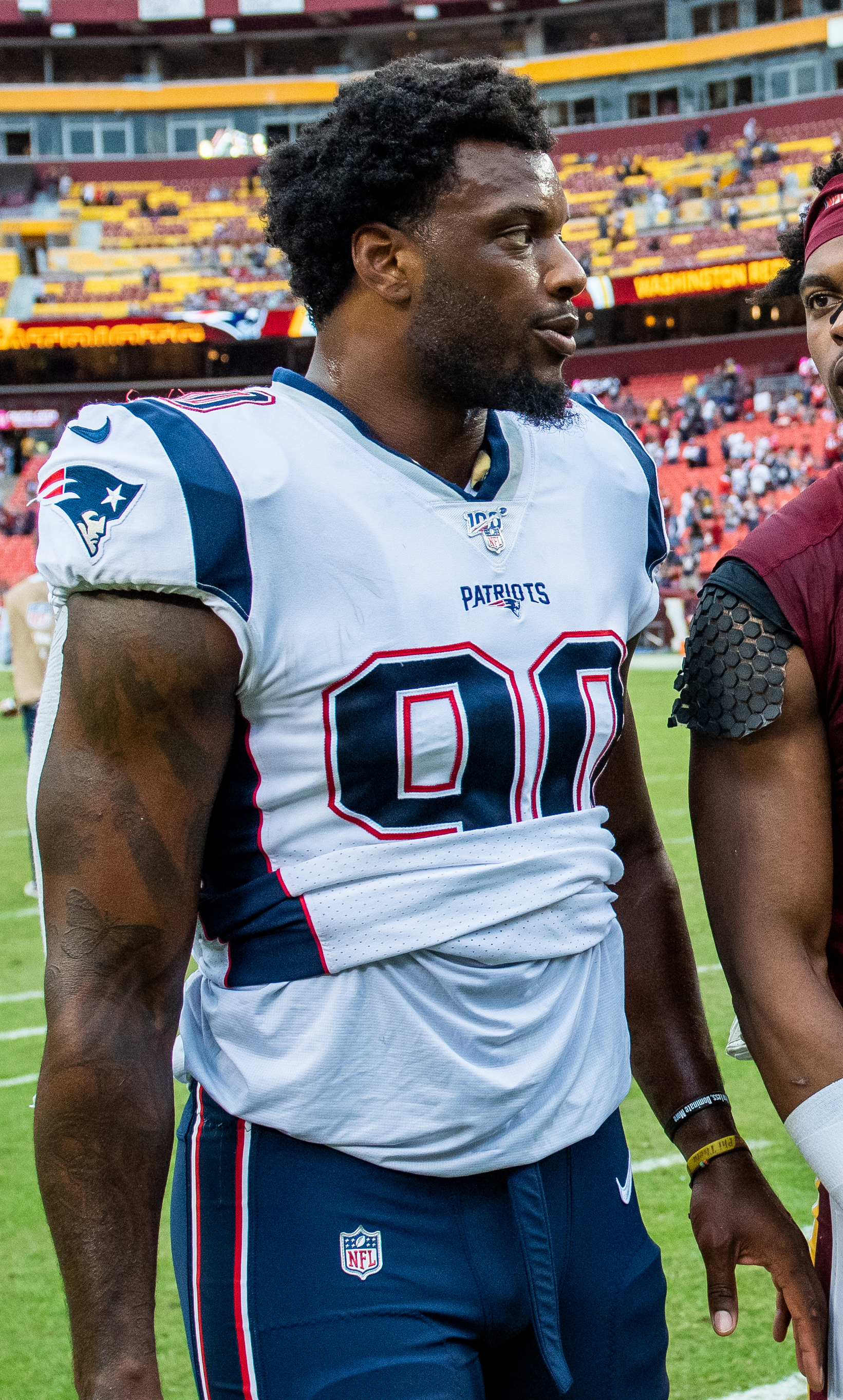 In 2019